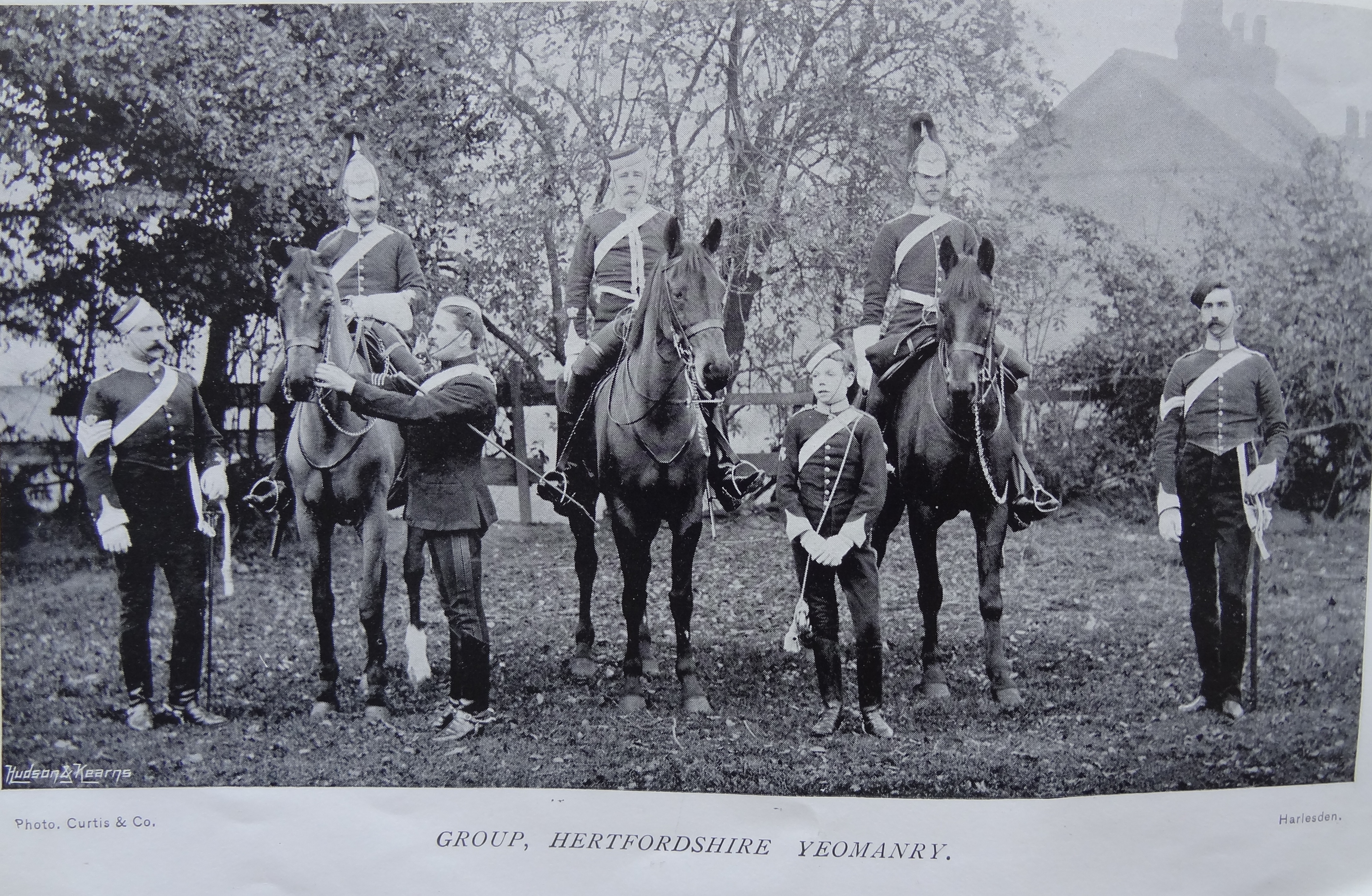 Taken from the Navy and Army illustrated magazine 1890s